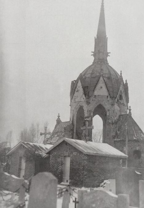 Jusélius mausoleum, Pori, Finland, after the fire on 4 December 1931.